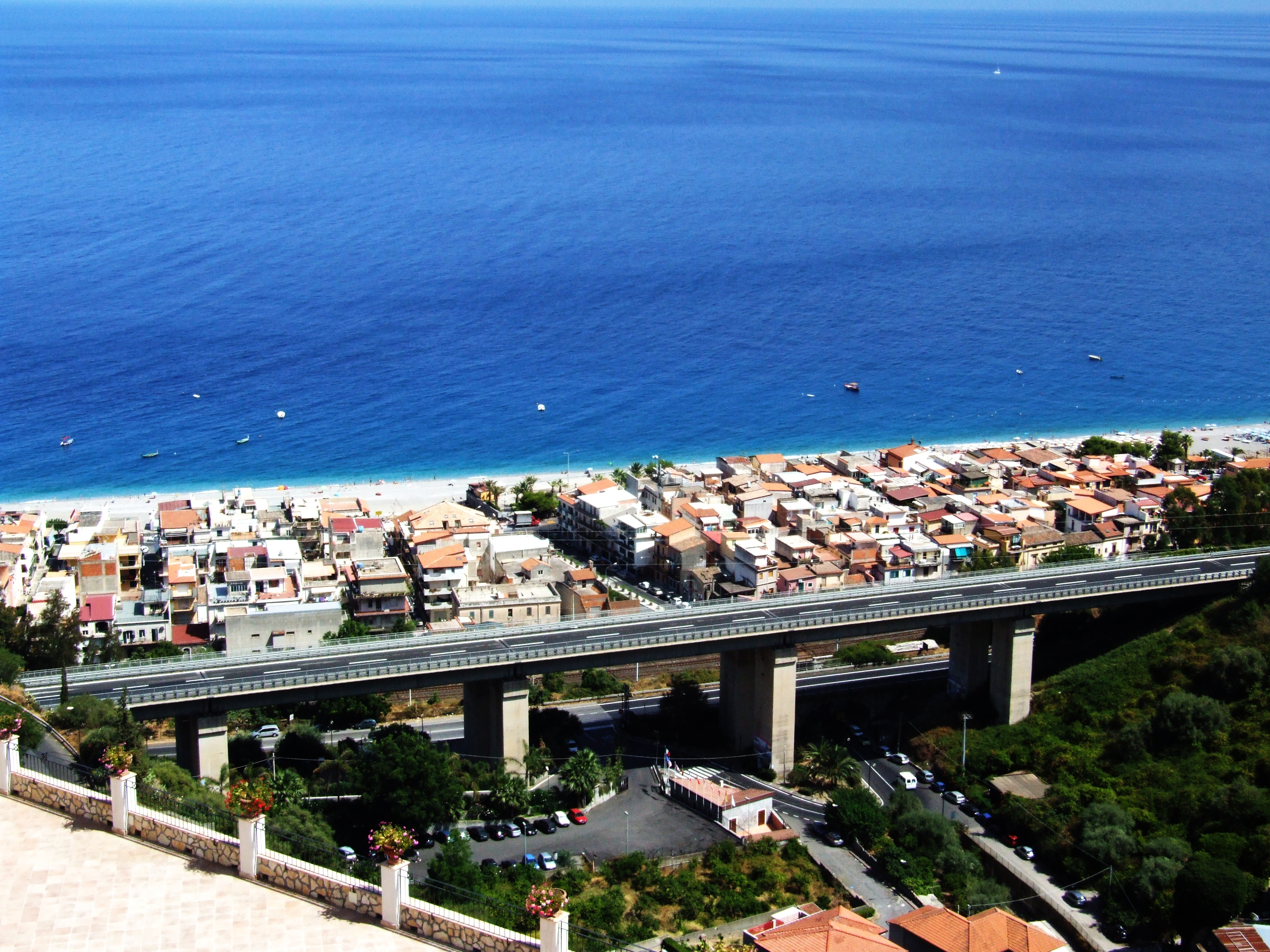 taormina giardininaxos messina isolabella sicilia sicily italia italy landscape wallpaper gnuckx travel creative commons zero cc facebook bebo news today oggi panoramio flickr googleearth maps geotagged wiki wikipedia